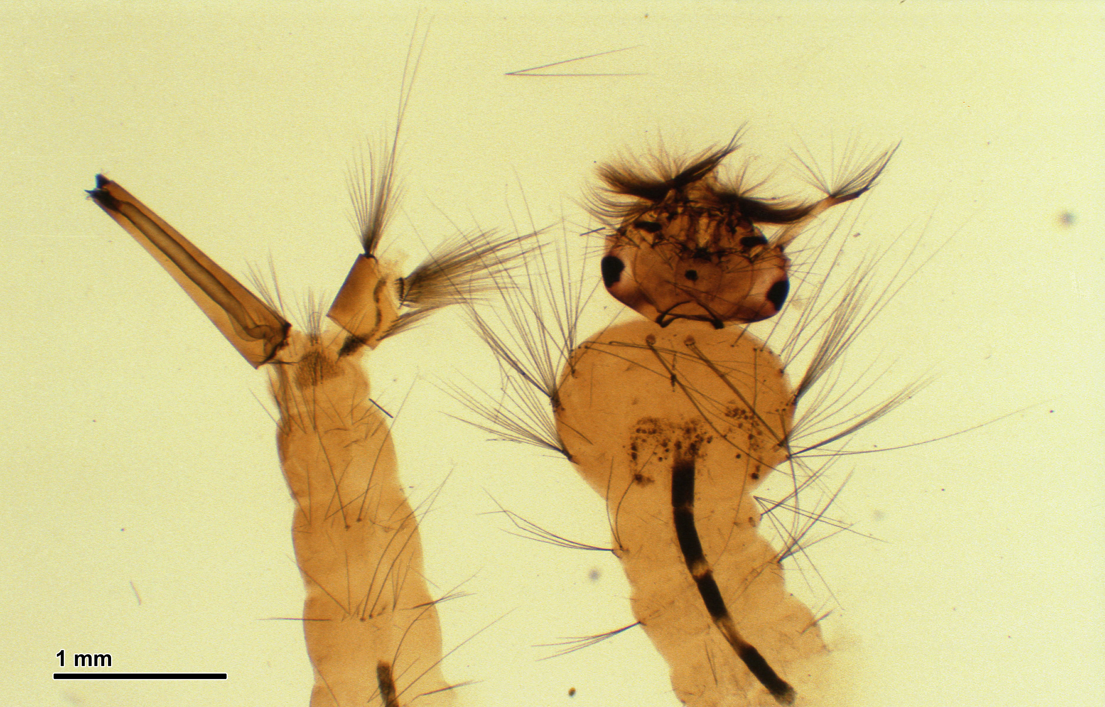 Common house mosquito (Culex pipiens): Total preparation; larva. Optical microscopy technique: Bright field. Magnification: 40x (for picture width 26 cm ~ A4 format).